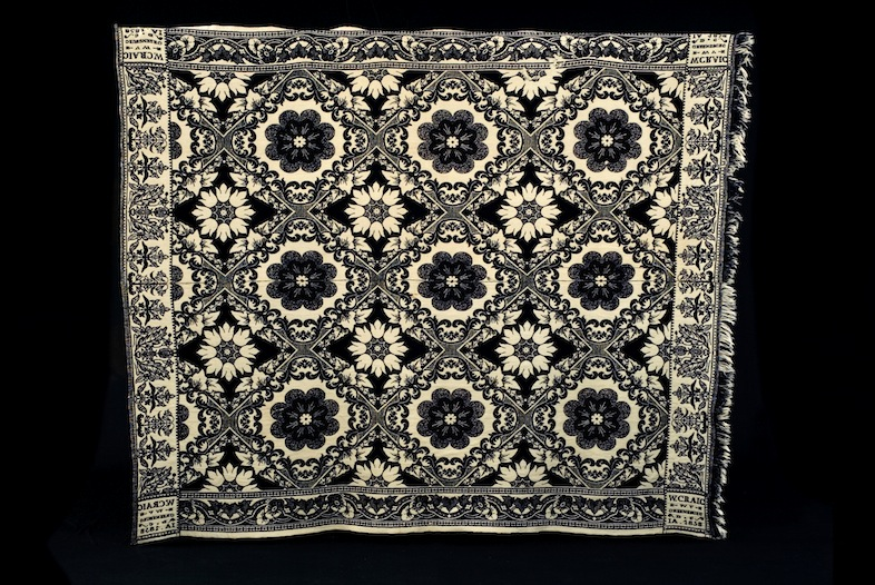 Jacquard coverlet made by the Craig Family, Decatur County, IN. The object in this image is within the permanent collection of The Children’s Museum of Indianapolis